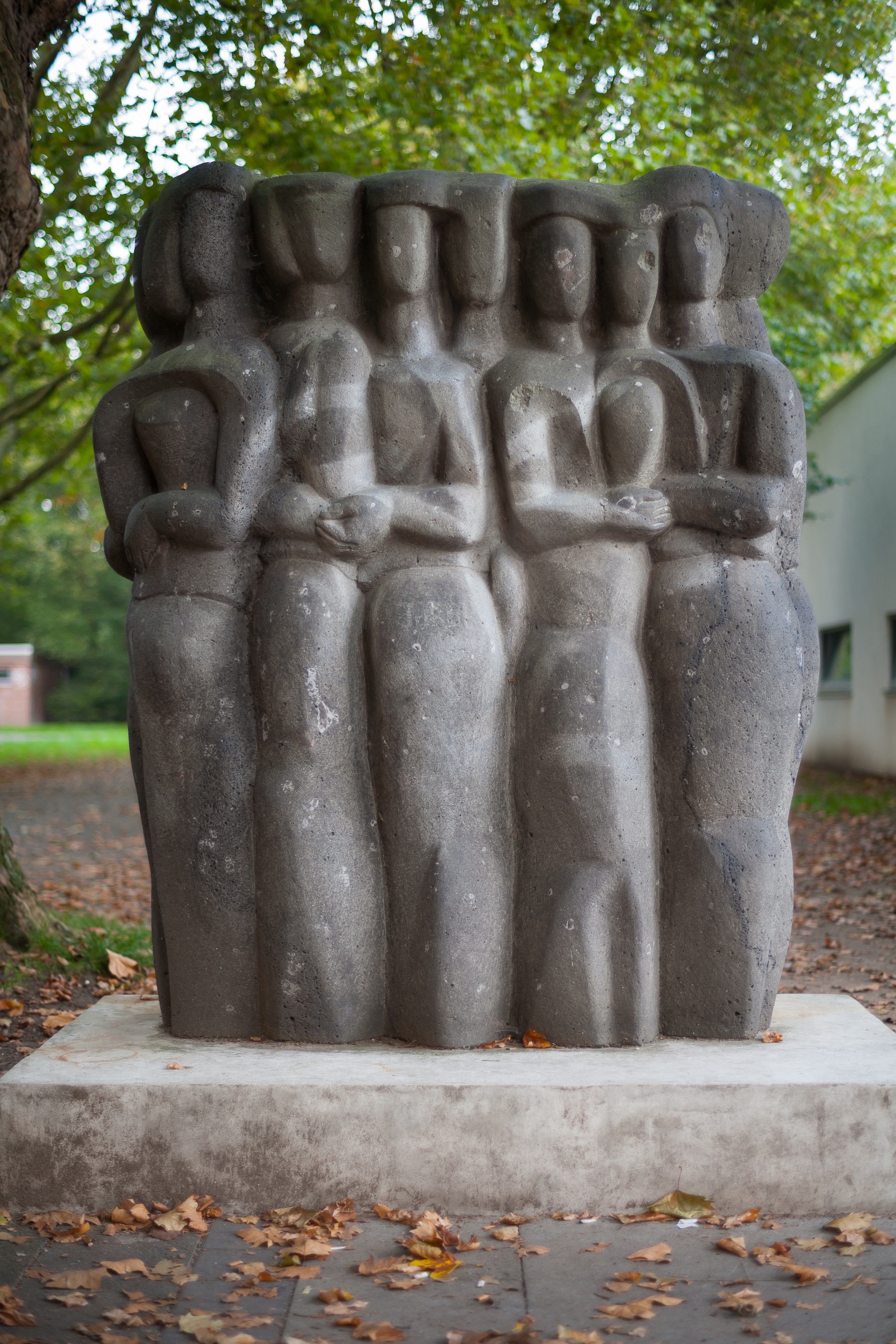 Sculpture "Paseo" by Ludwig Gabriel Schrieber in front of the Elsa Brandstroem school located at Elkartalle in Hanover, Germany.